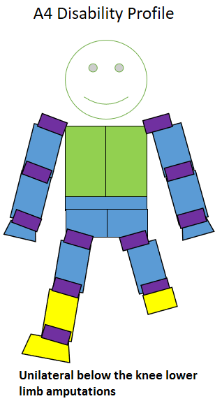 Amputee sport related classification illustration using the ISOD/IWAS classification system.